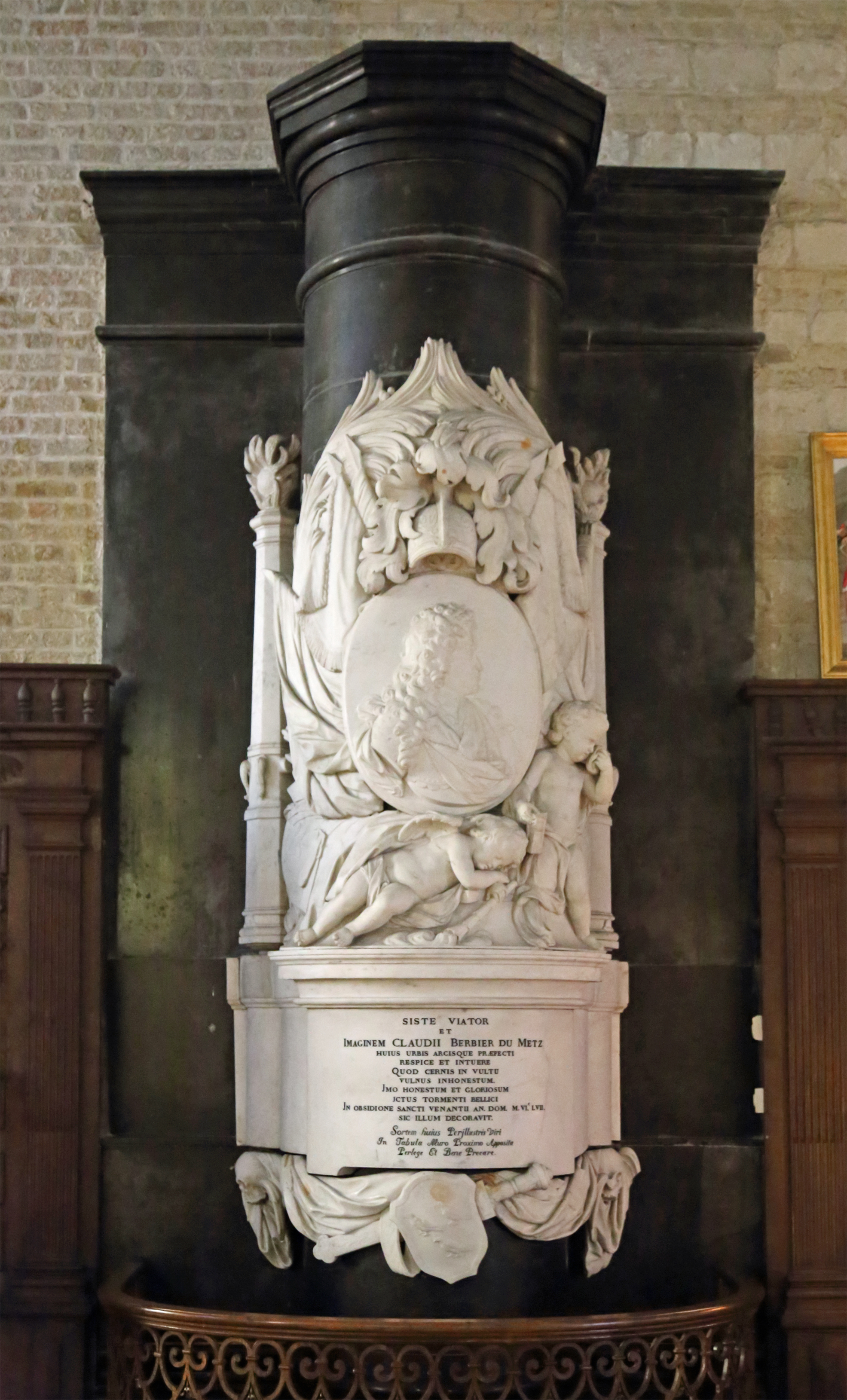 Cenotaph of Claude Berbier du Metz (†1690), lieutenant-general and governor of Gravelines under king Louis XIV, made by the French sculptor François Girardon, in St Willibrord's church in Gravelines (département du Nord, France)